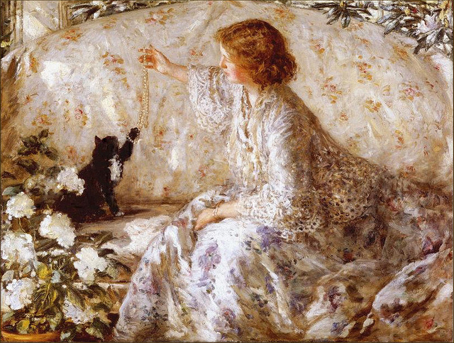 Hydrangeas